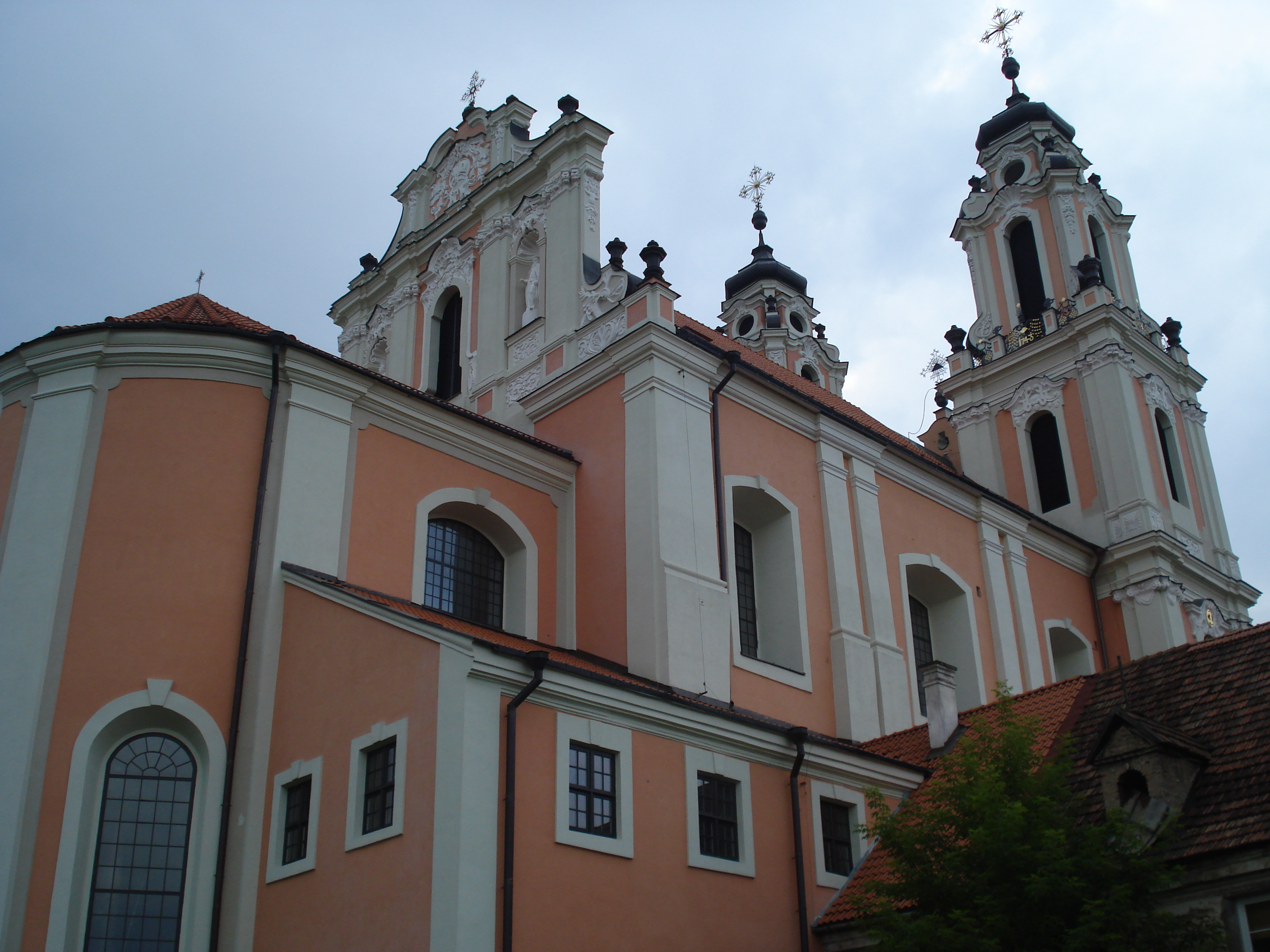 Church of St. Catherine in Vilnius